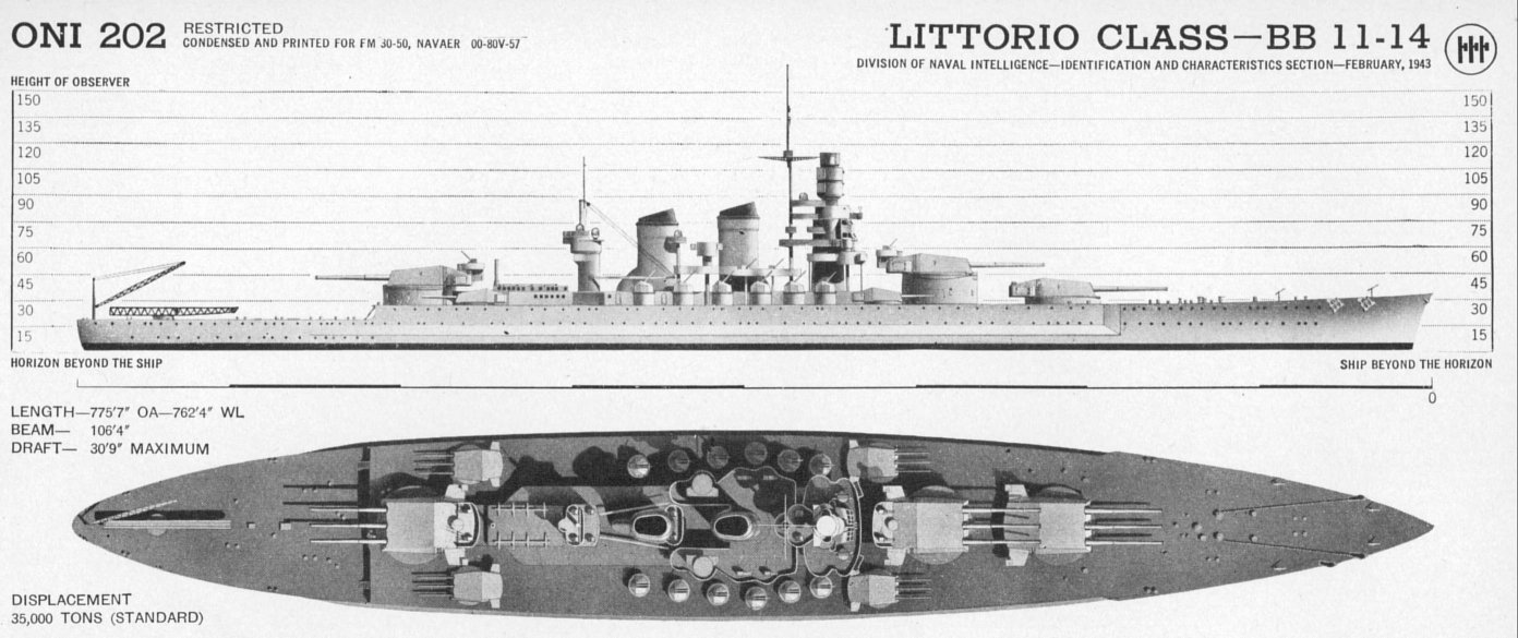 ONI identification: Littorio class battleship